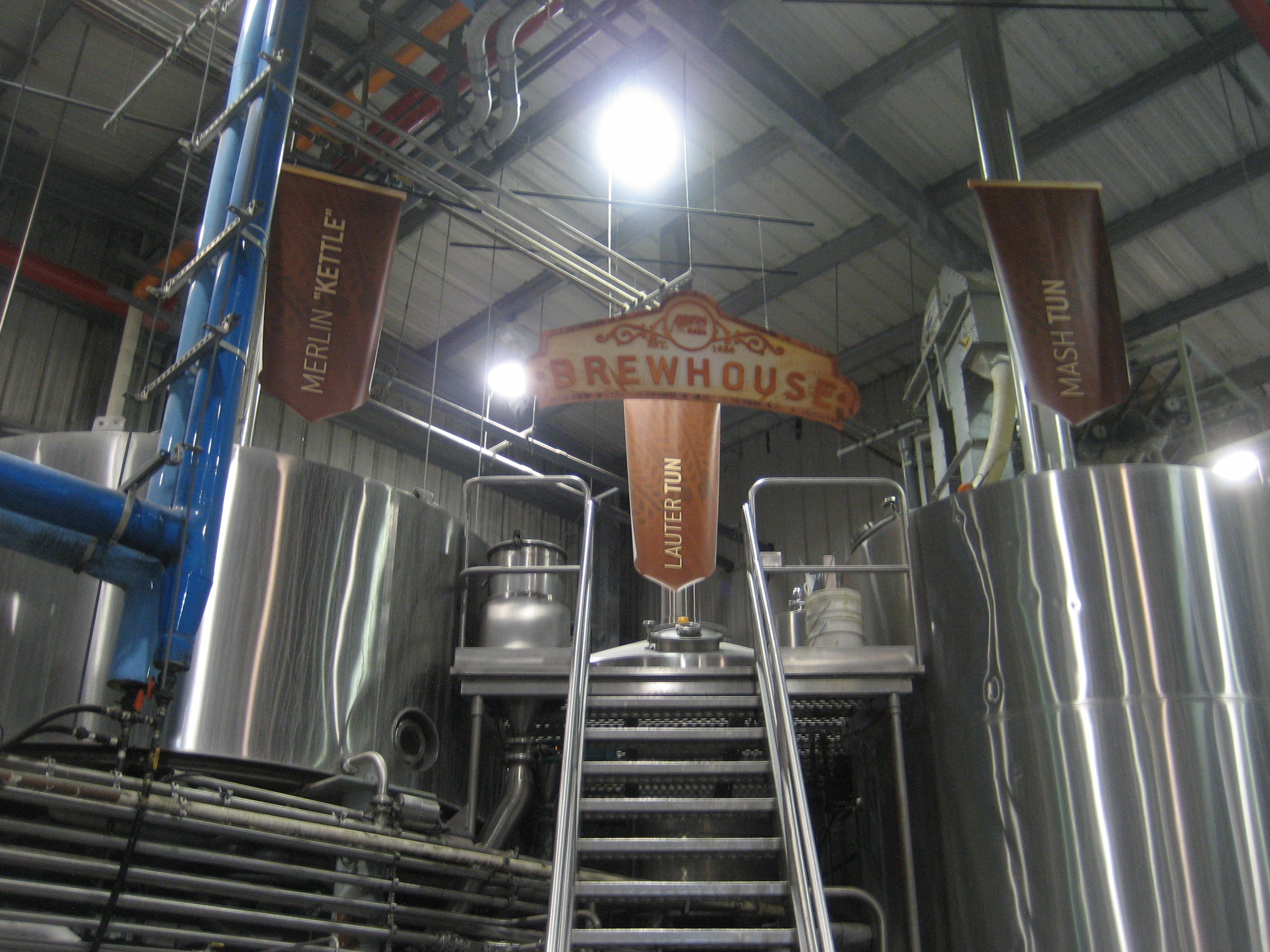 Abita Brewery, Abita Springs, Louisiana. On brewery tour.